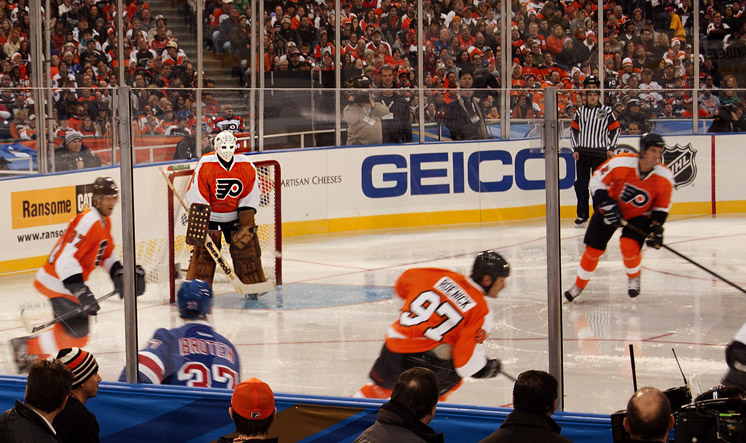 Hockey Hall of Fame goalie Bernie Parent of the NHL Philadelphia Flyers returned to the ice in the 2012 NHL Winter Classic Alumni Game against the New York Rangers at Citizens Bank Park in Philadelphia for the first time since his playing career was ended almost 33 years earlier by eye injury in a game at the Spectrum on February 17, 1979. (Photograph by uploader)